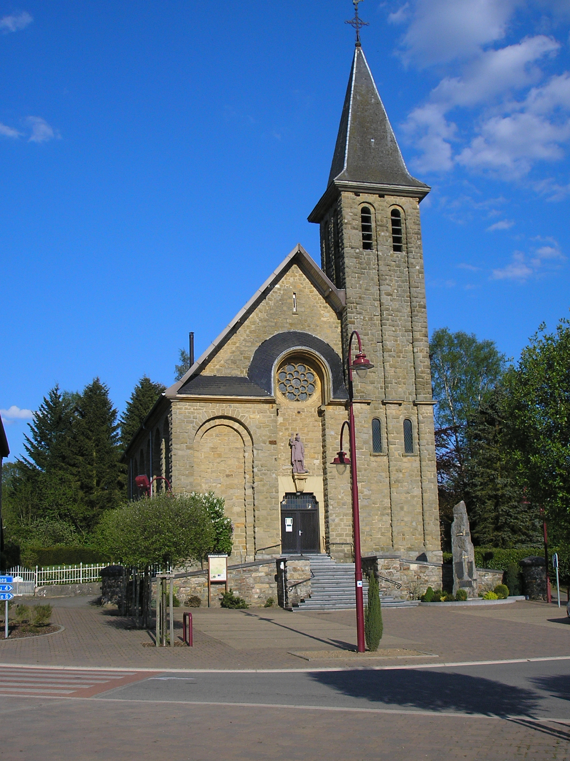 Ondenval, East Belgium, Church